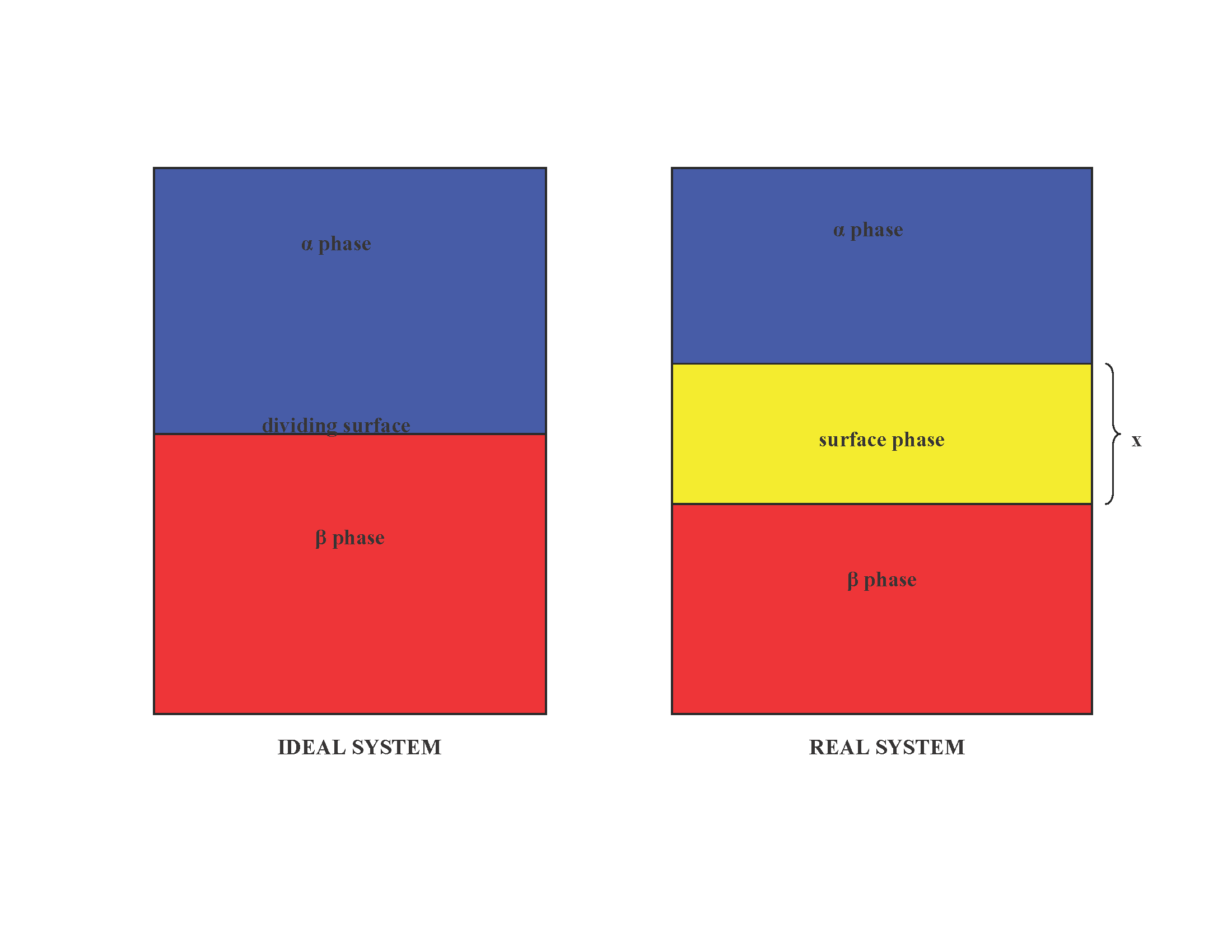 Comparison between the Idealized Gibbs model and the Real Systems